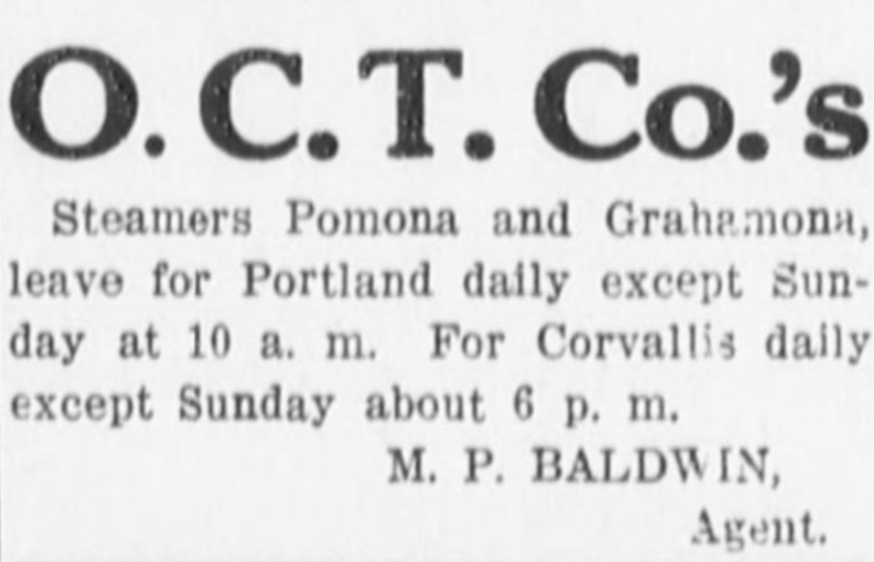 Advertisement placed in the Morning Oregonian on January 2, 1913 for service to Corvallis Oregon by the steamboats of the Oregon City Transportation Company, Pomona and Grahamona.